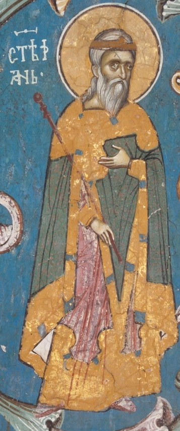 Detail of fresco Loza Nemanjića,Dragutin,Visoki Dečani,Serbia.